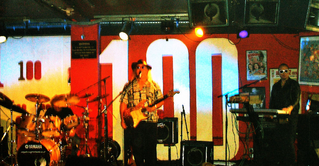 Edgar Broughton Band on stage at the 100 Club in London's Oxford Street